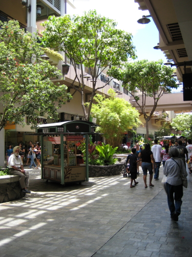 Ala Moana